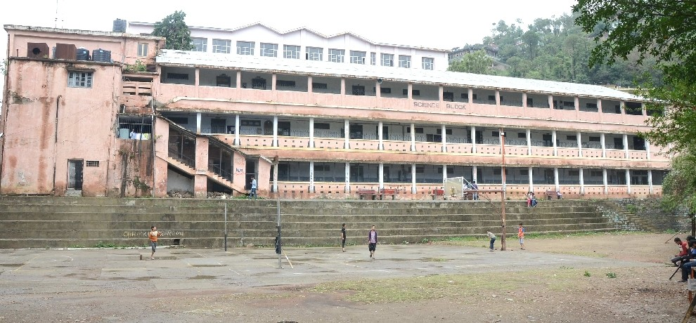 College Building GPGC Solan